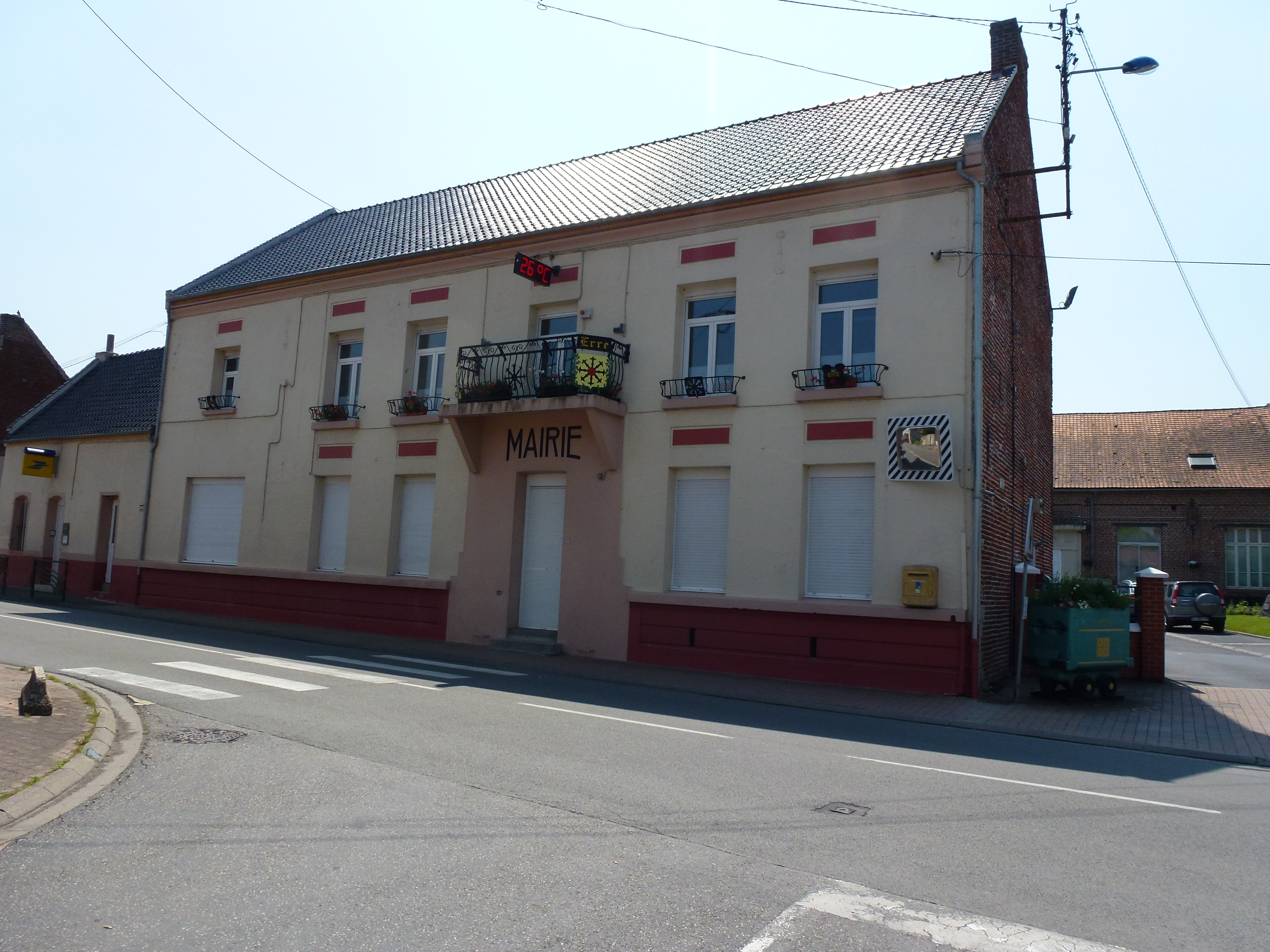 Erre (Nord, Fr) mairie